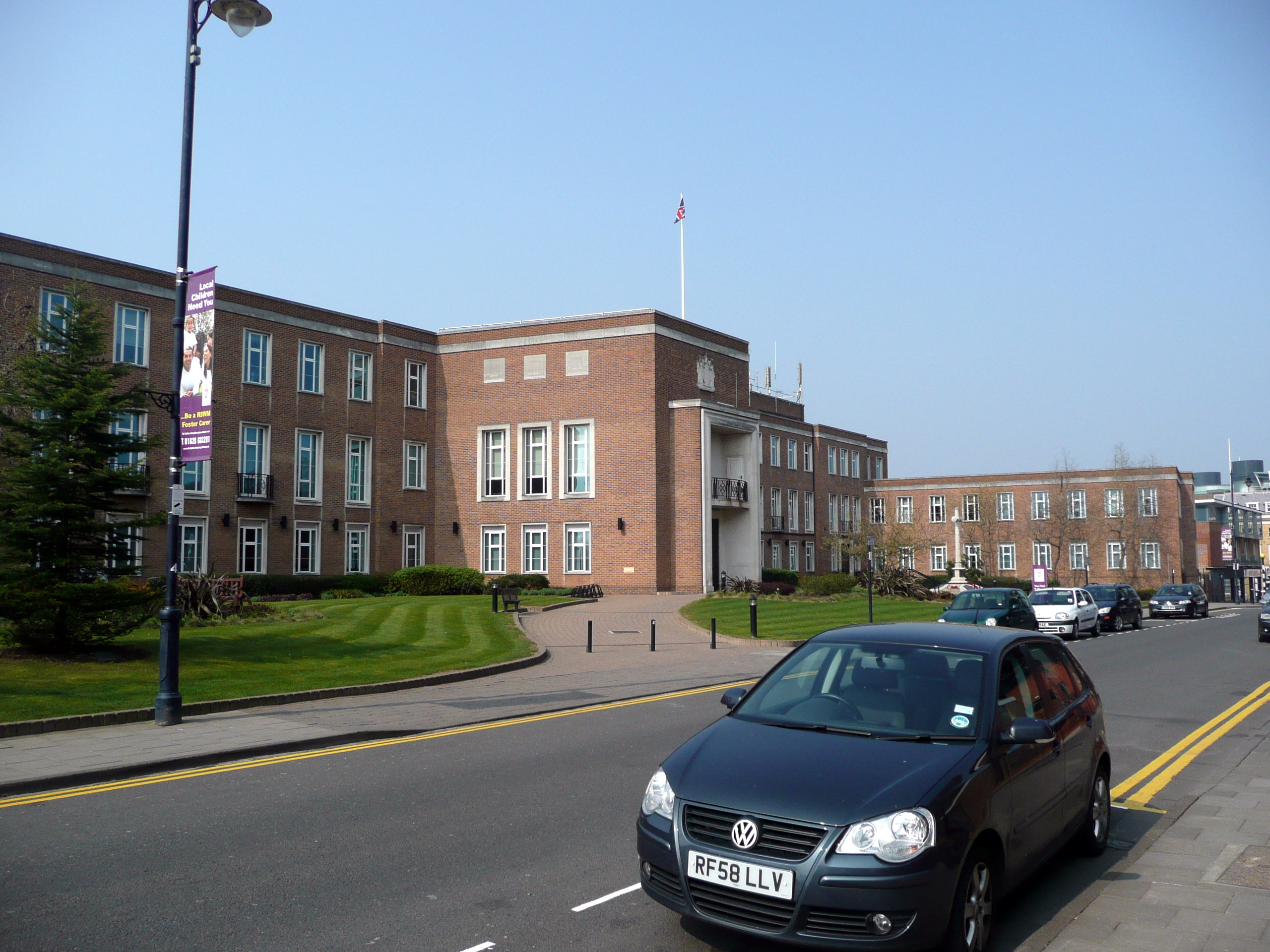 Town Hall, St Ives Road, Maidenhead. Designed by Guy North and built 1960-2.